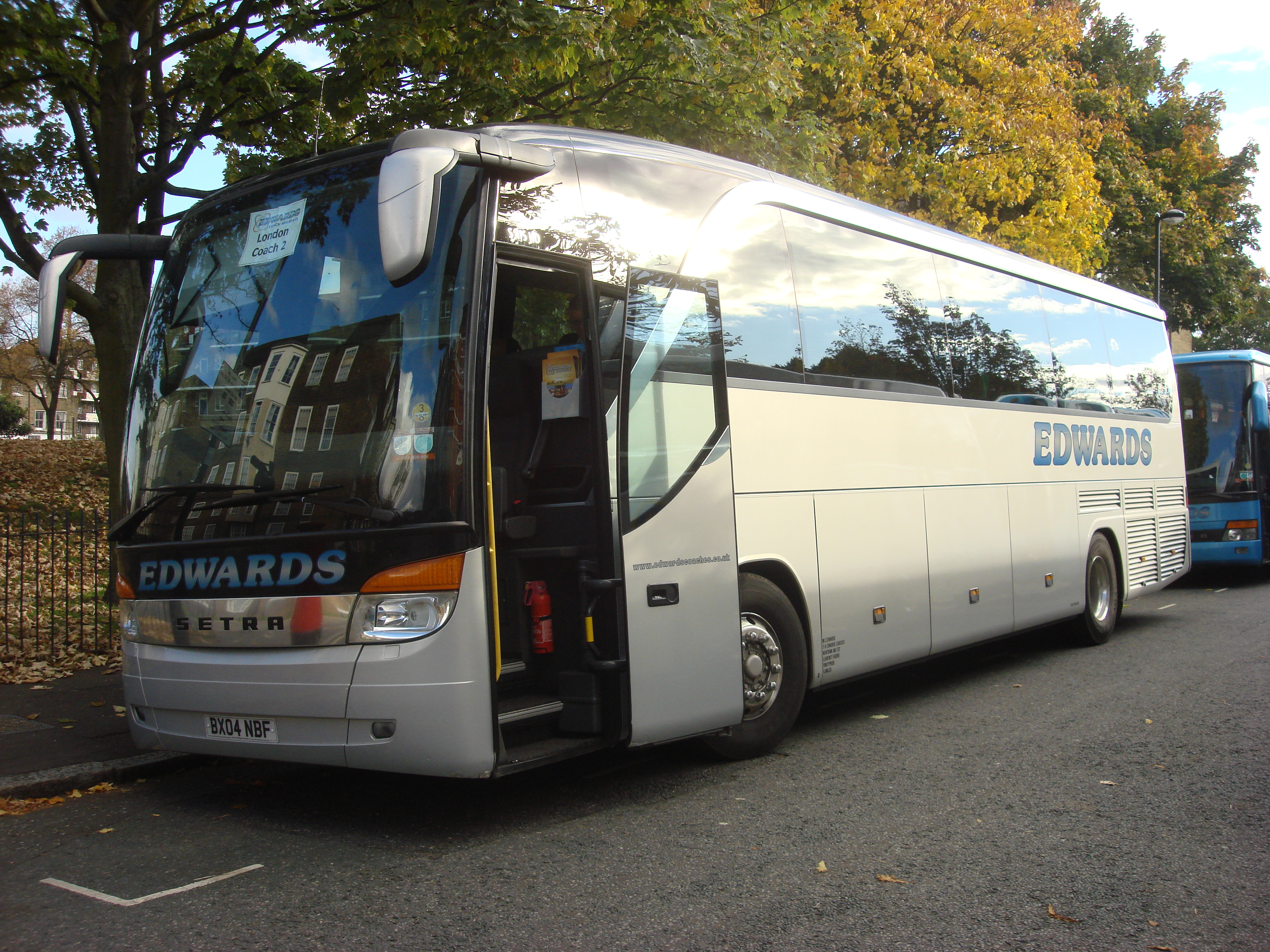 Edwards Coach at Vauxhall, London